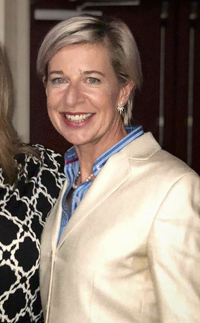 Katie Hopkins in 2018